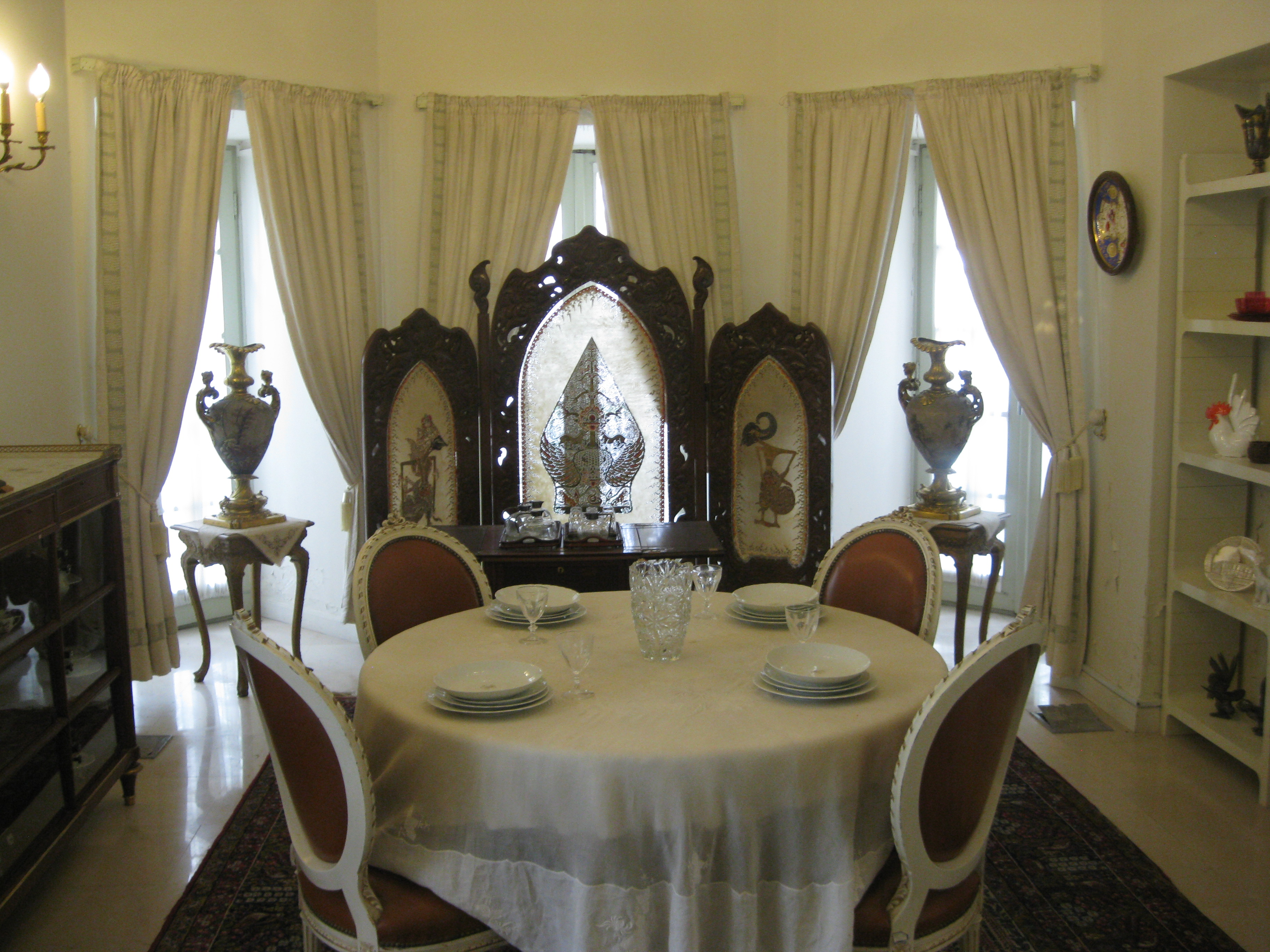 inside of ahmadshahi palace (Kooshk Ahmadshahi) in Tehran, Iran